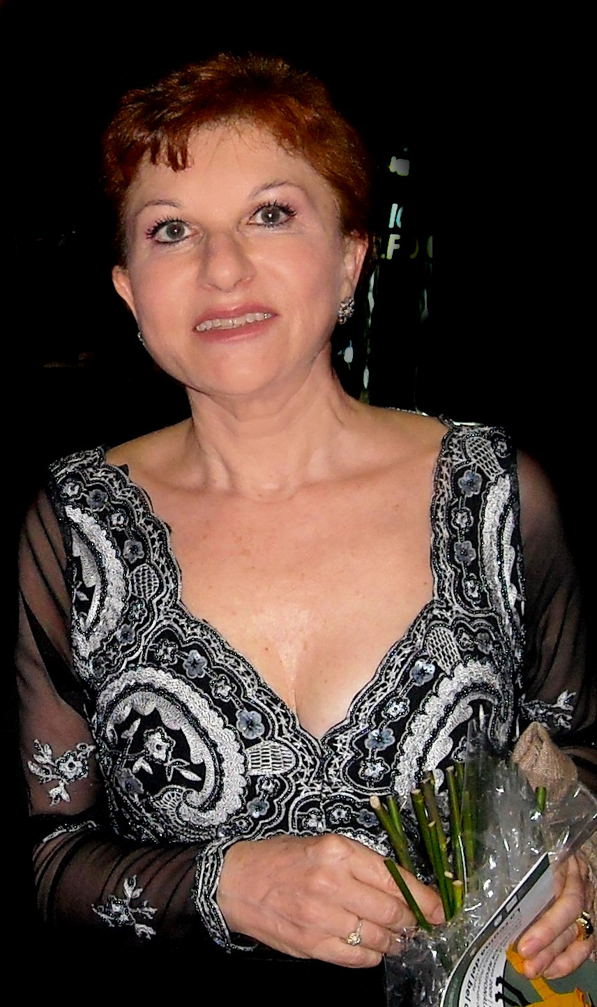 Mariella Devia. Italian opera singer. Gorizia (It), March, 6, 2009